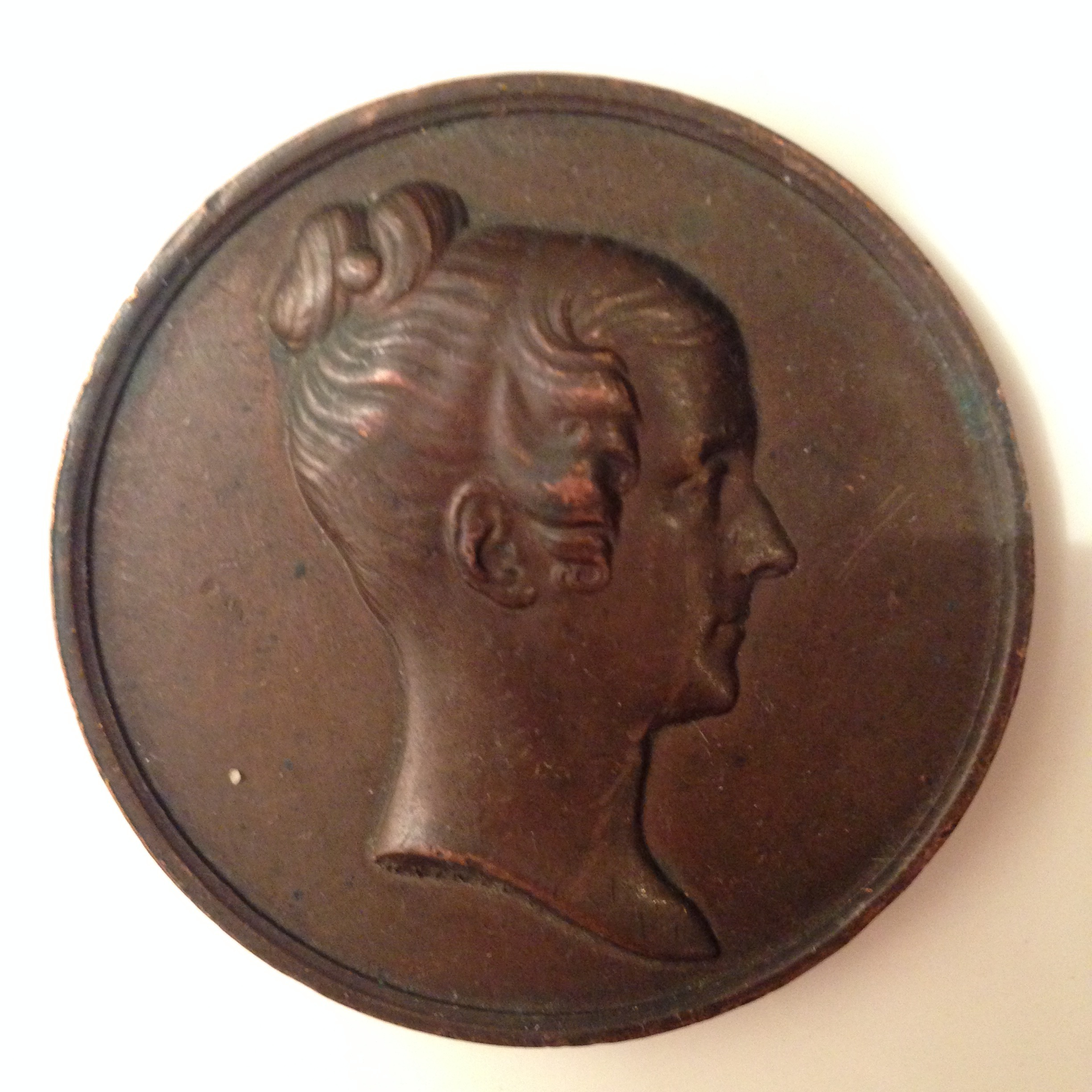 A bronze medallion showing Mary Somerville in profile. Inscription on the reverse says: Mary Somerville, 1839.